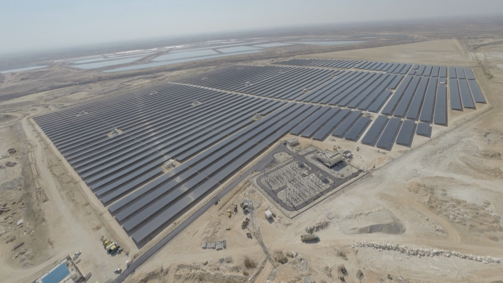 Neot Hovav Bird's Eye View